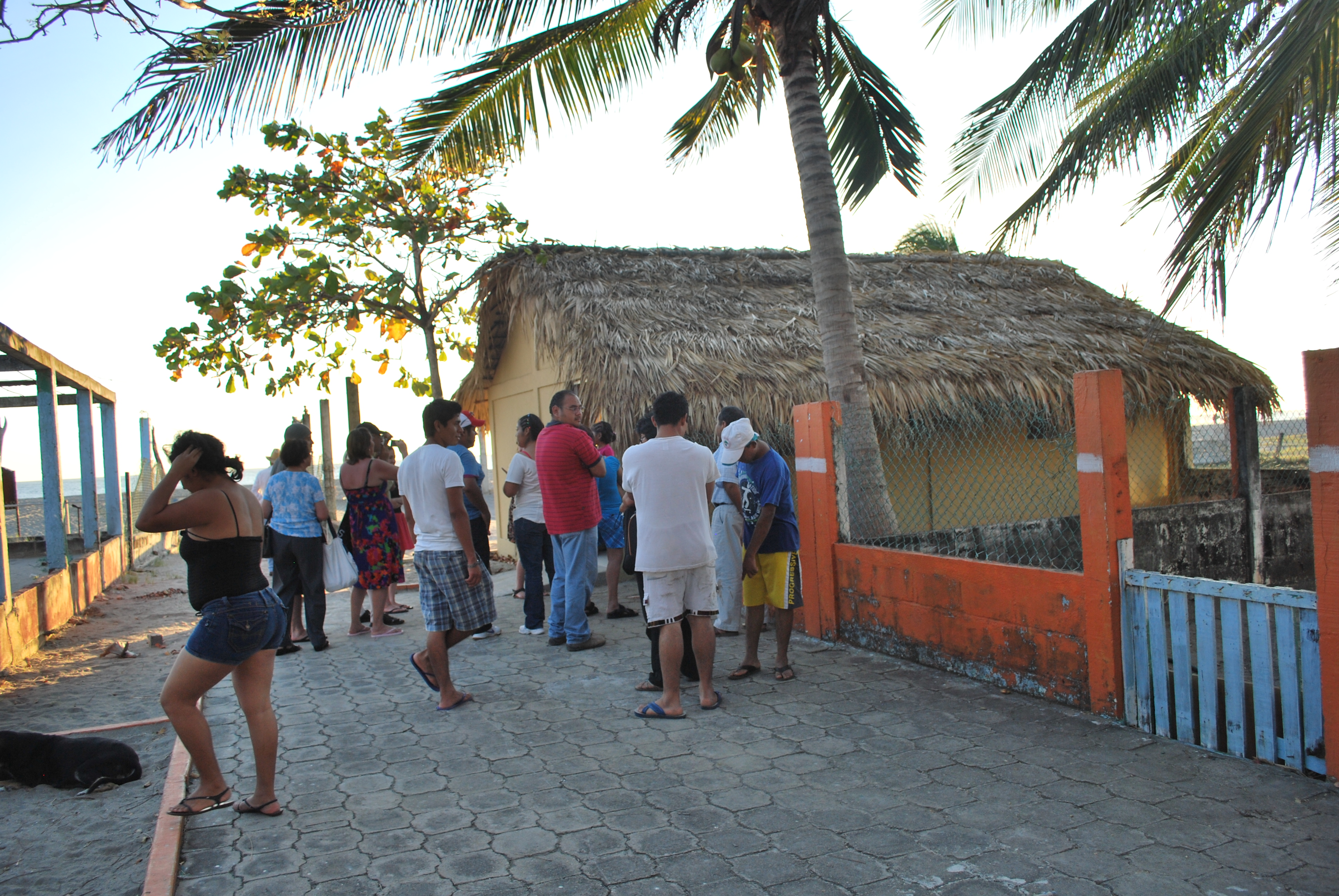 Visitors at the Puerto Arista turtle and alligator sanctuary in Puerto Arista, Chiapas